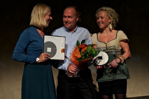 Norwegian jewel designer Sigurd Bronger receiving the award Jacobprisen 2010